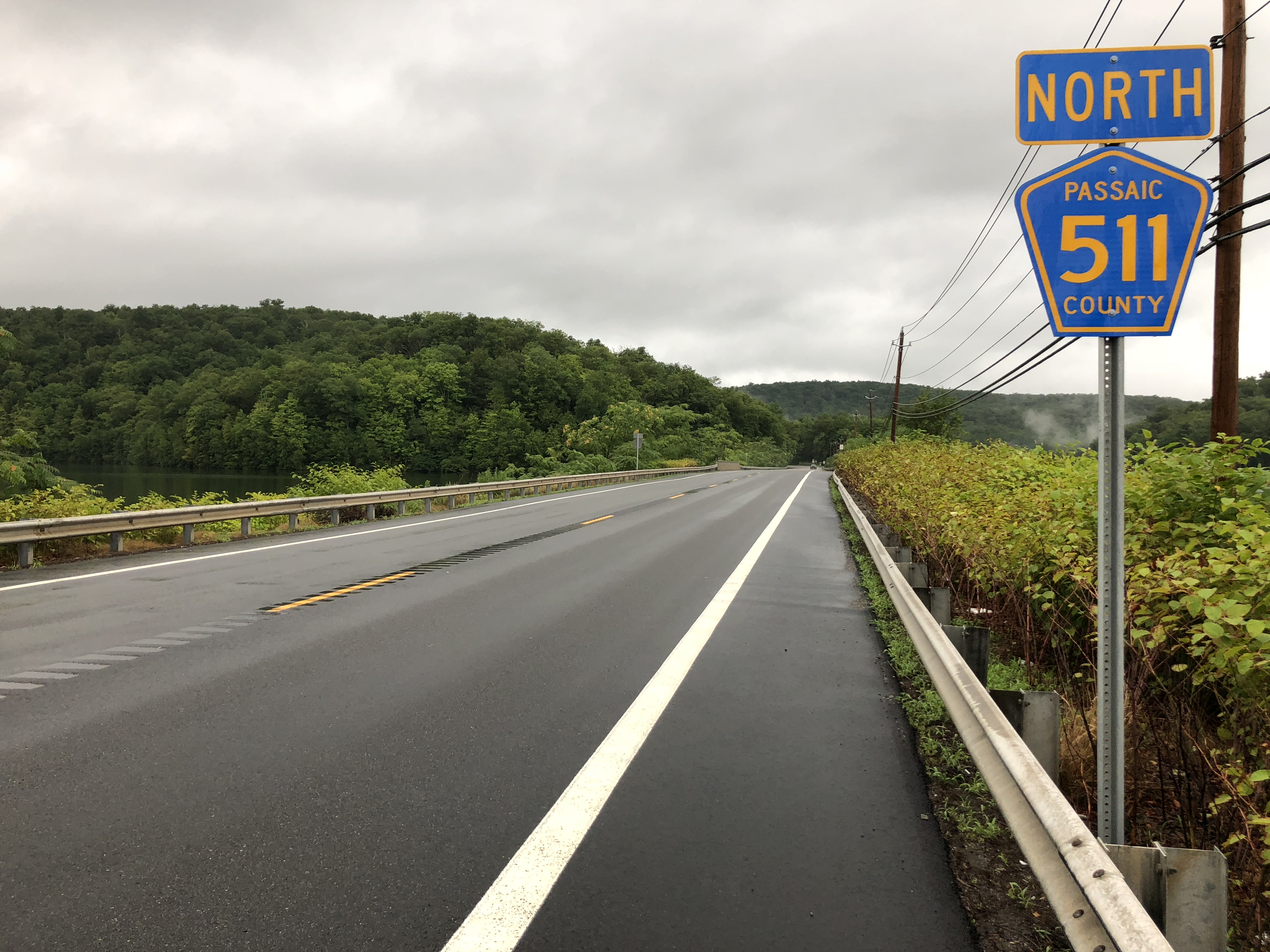 View north along Passaic County Route 511 (Greenwood Lake Turnpike) just north of Beech Road in West Milford Township, Passaic County, New Jersey